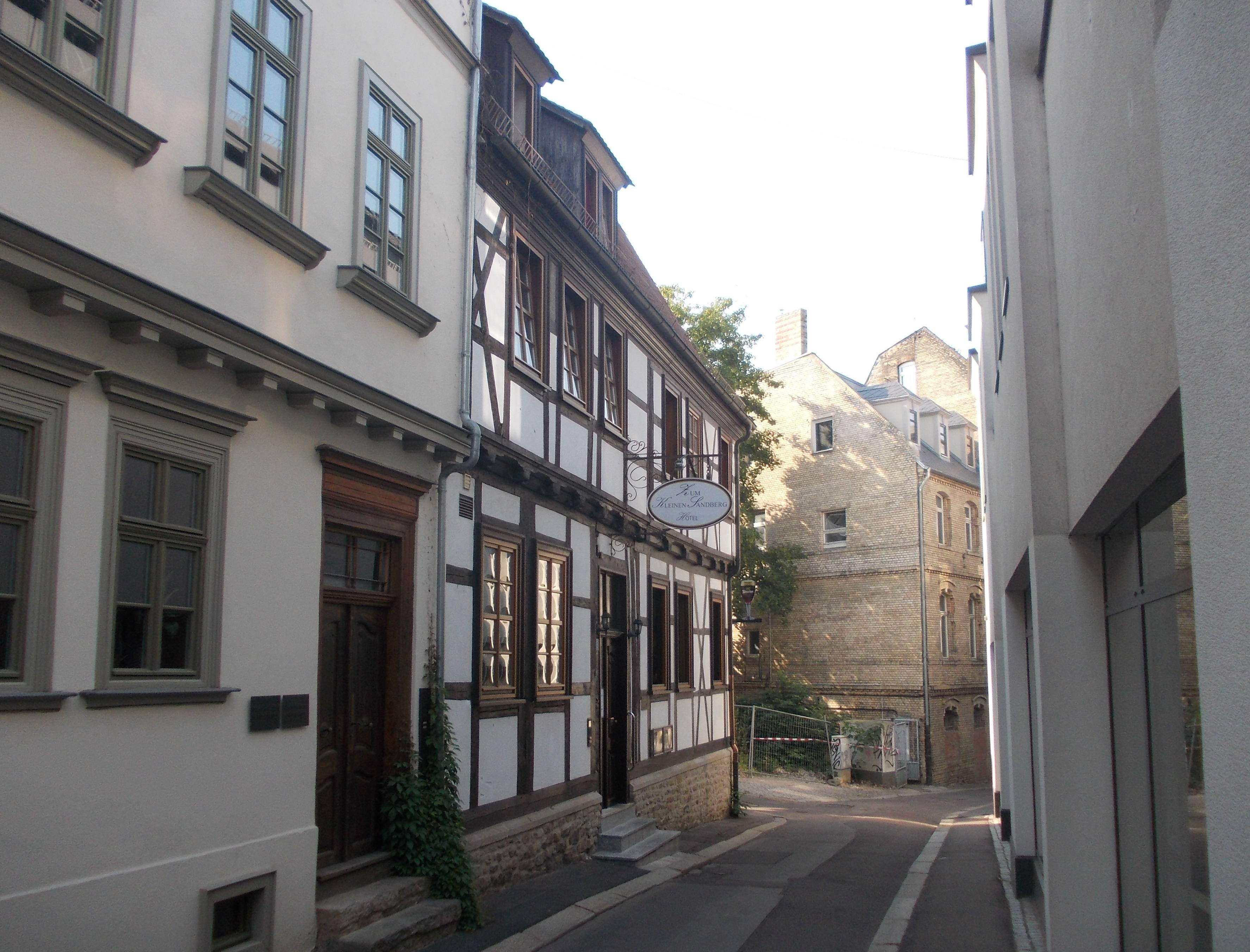 No. 5, Kleiner Sandberg in Halle/Saale (Saxony-Anhalt)